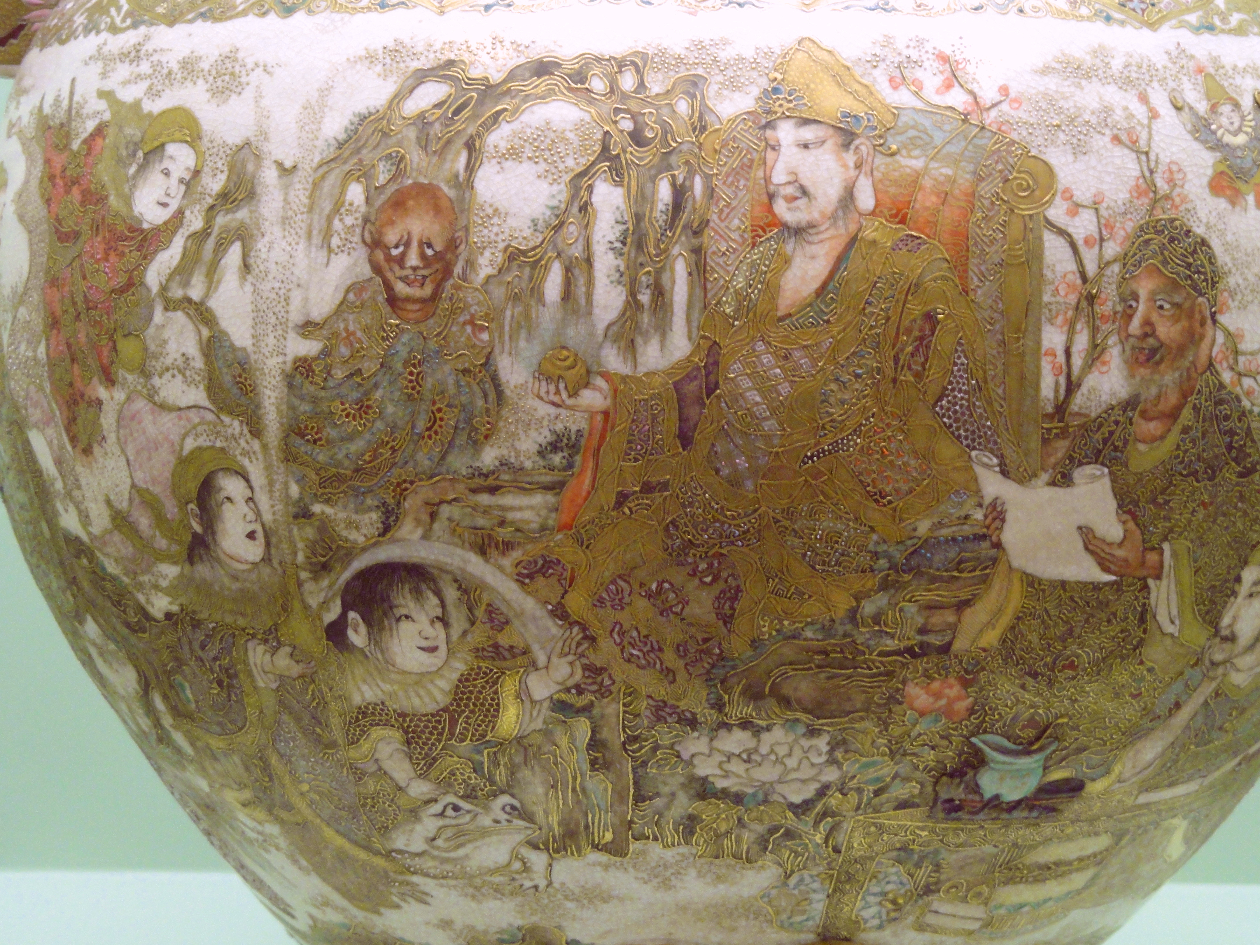 Exhibit in the George Walter Vincent Smith Art Museum, 21 Edwards Street, Springfield, Massachusetts, USA. This item is old enough so that it is in the public domain. The museum permitted photography without restriction.